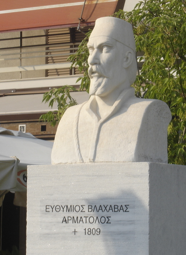 Bust of armatolos (revolutionary) Vlahavas, in Kalampaka.